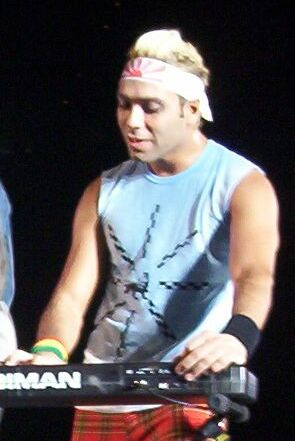 Tony Kanal performing with No Doubt in Sacramento, California, United States